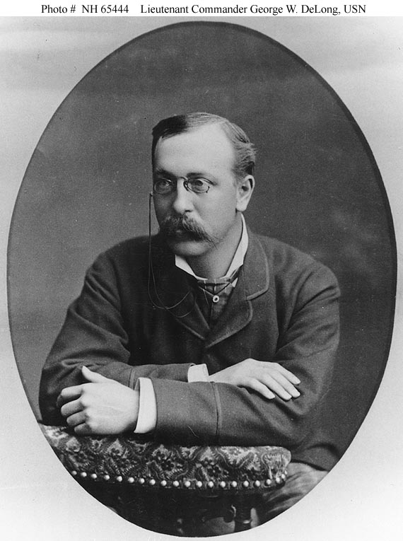 NH 65444 Lieutenant Commander George Washington DeLong, USN. Image taken from the US Navy historical image library (